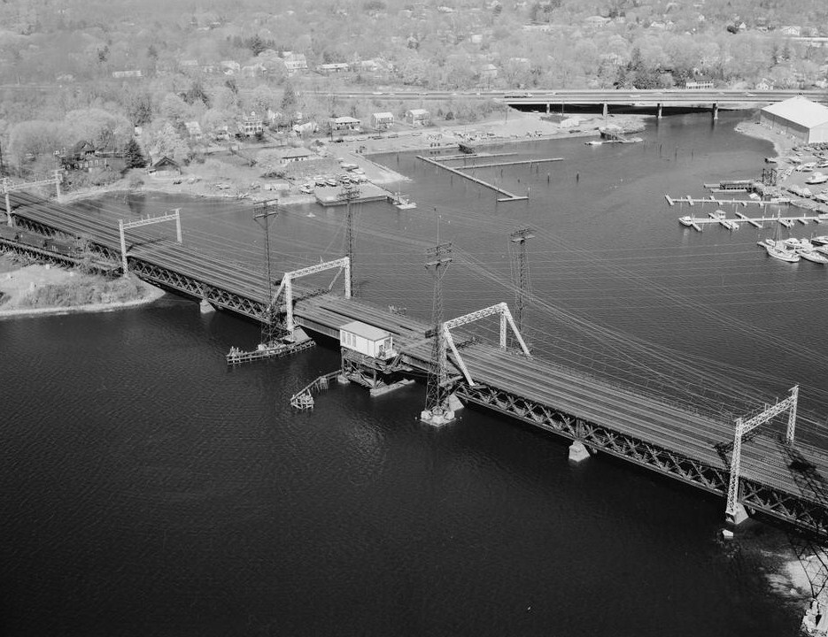 Mianus River Bridge, Cos Cob (Fairfield County, Connecticut) cropped This image or media file contains material based on a work of a National Park Service employee, created as part of that person's official duties. As a work of the U.S. federal government, such work is in the public domain in the United States. See the NPS website and NPS copyright policy for more information. Creator: U.S. Department of the Interior, National Park Service, Historic American Engineering Record. Survey number HAER CT-11-10 Source: U.S. Library of Congress, Prints and Photographs Division, "Built in America" Collection. Copyright: "The original measured drawings and most of the photographs and data pages in HABS/HAER/HALS were created for the U.S. Government and are considered to be in the public domain." Object location41° 01′ 51″ N, 73° 35′ 41″ W